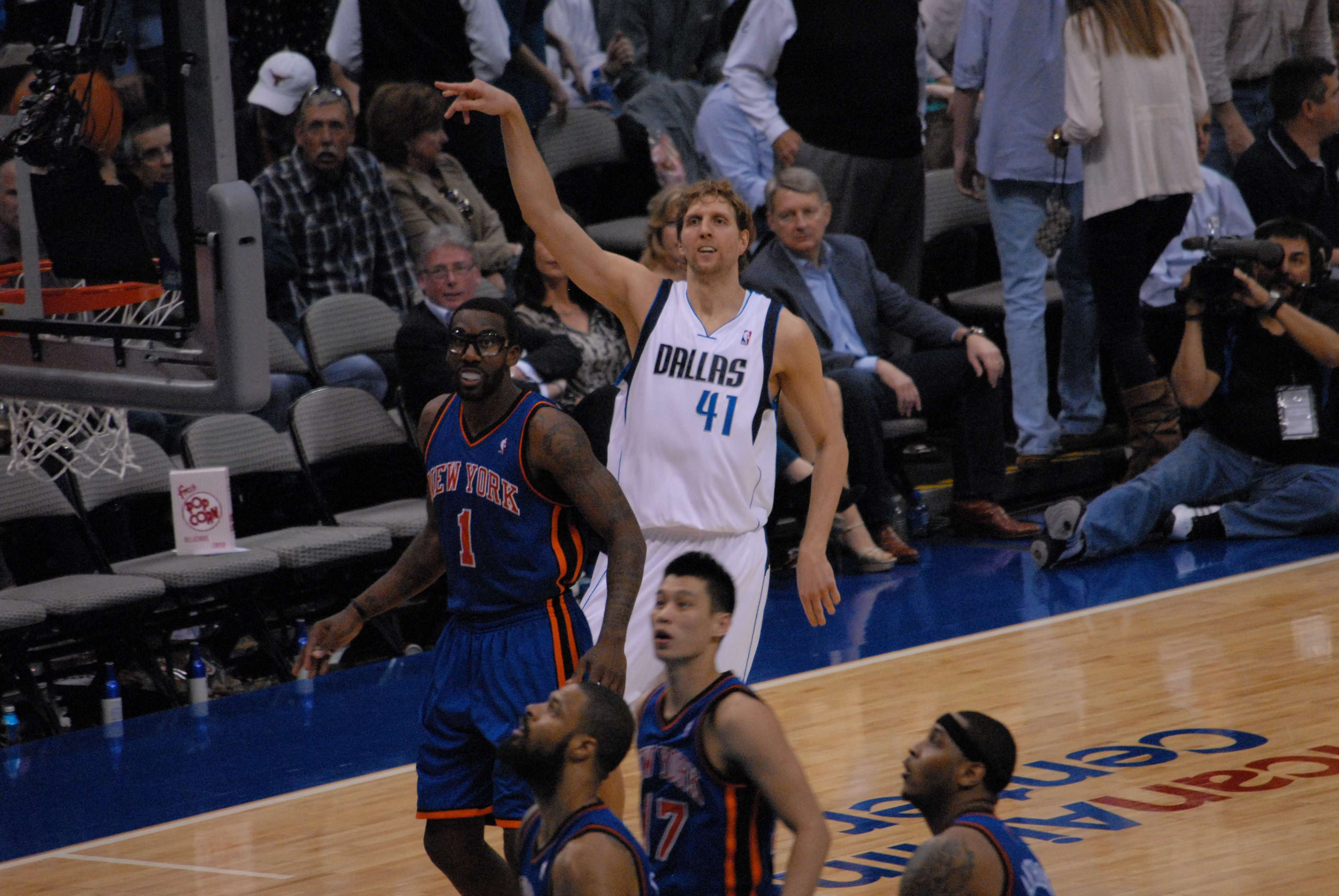 Swish